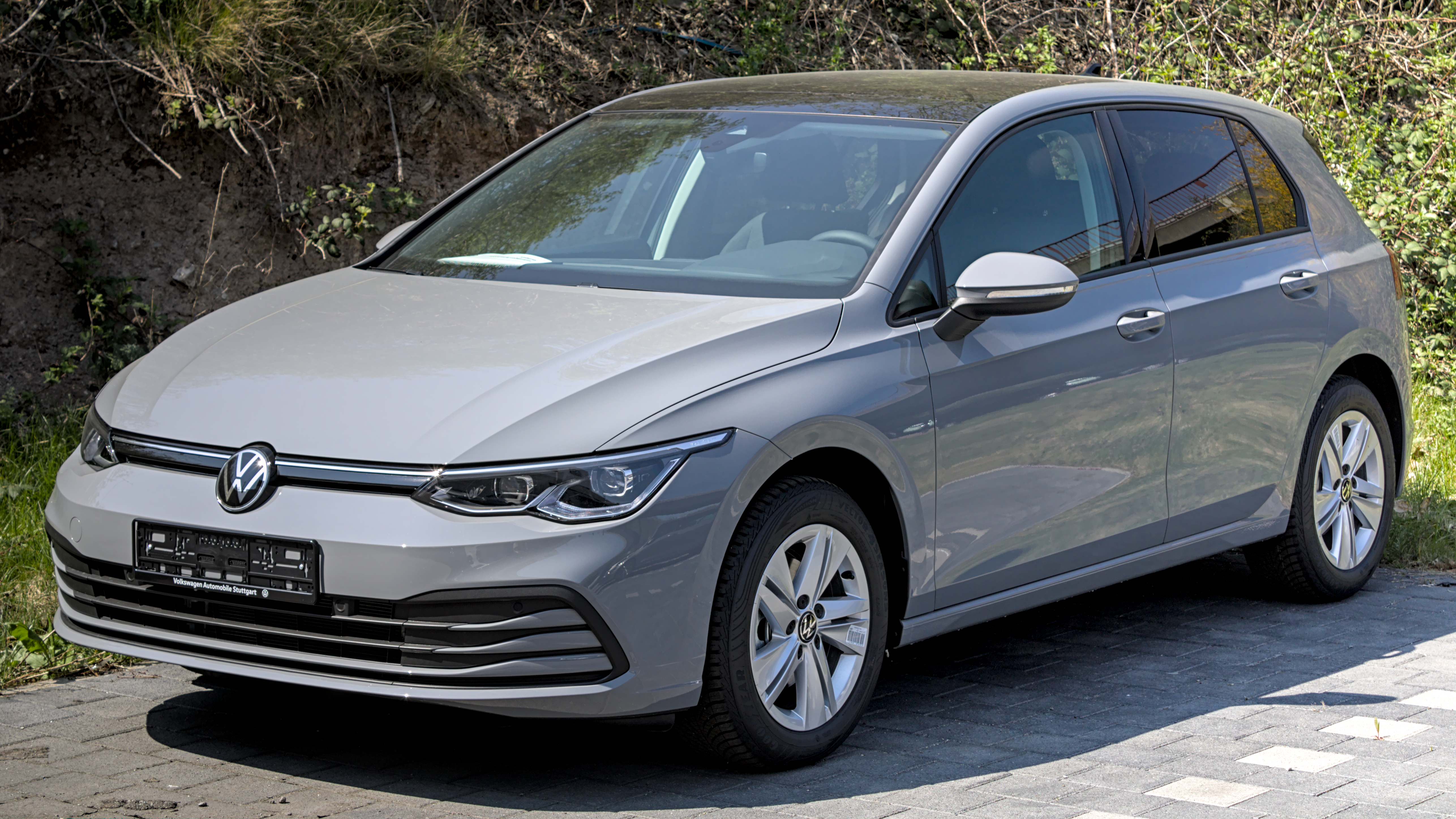 Volkswagen_Golf_VIII in Stuttgart